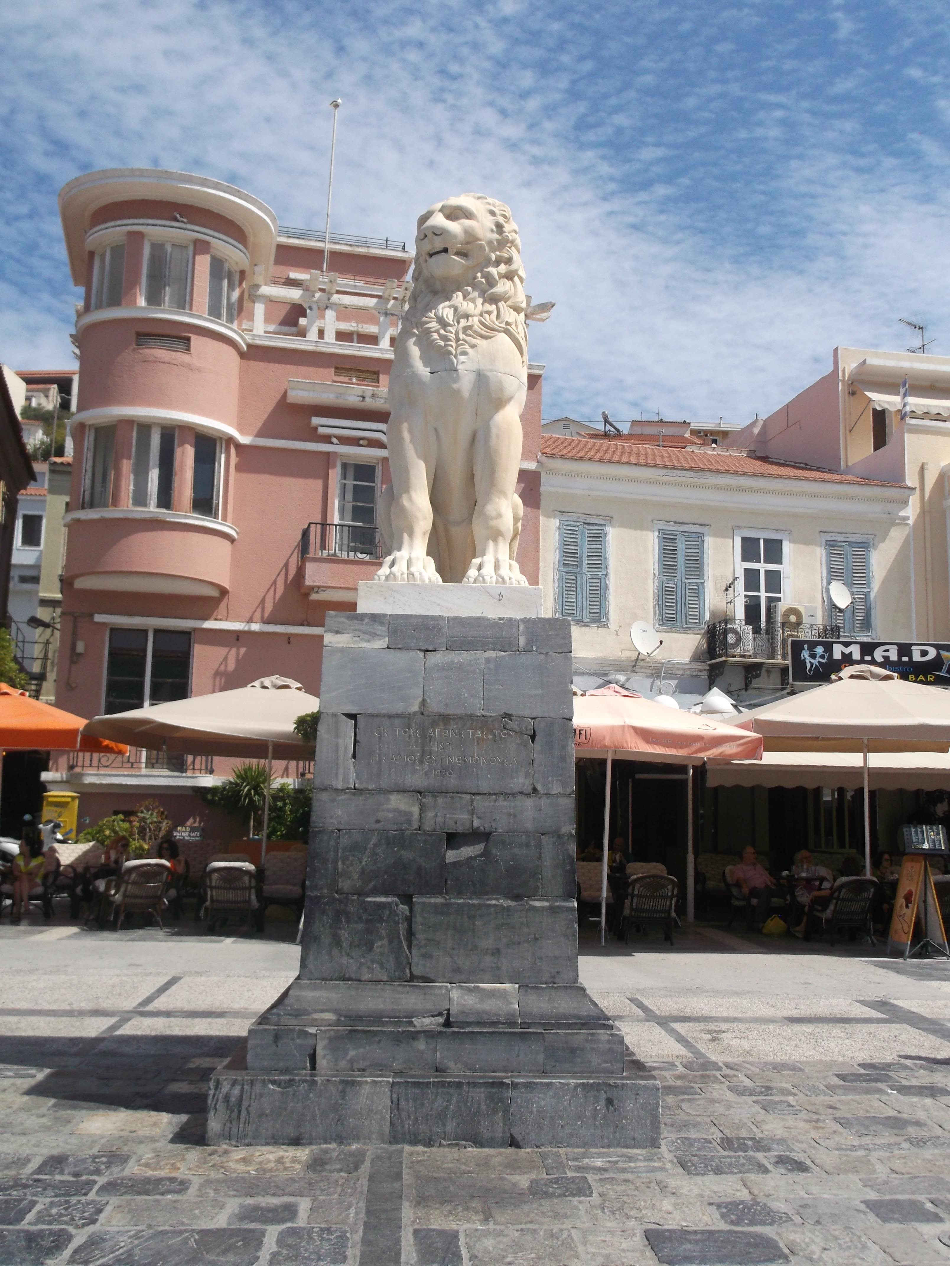 Leon - Monument erected on Greek island of Samos on 1930 to celebrate 100 years of Greek Freedom. Sculptor Ioannis Koulouris.